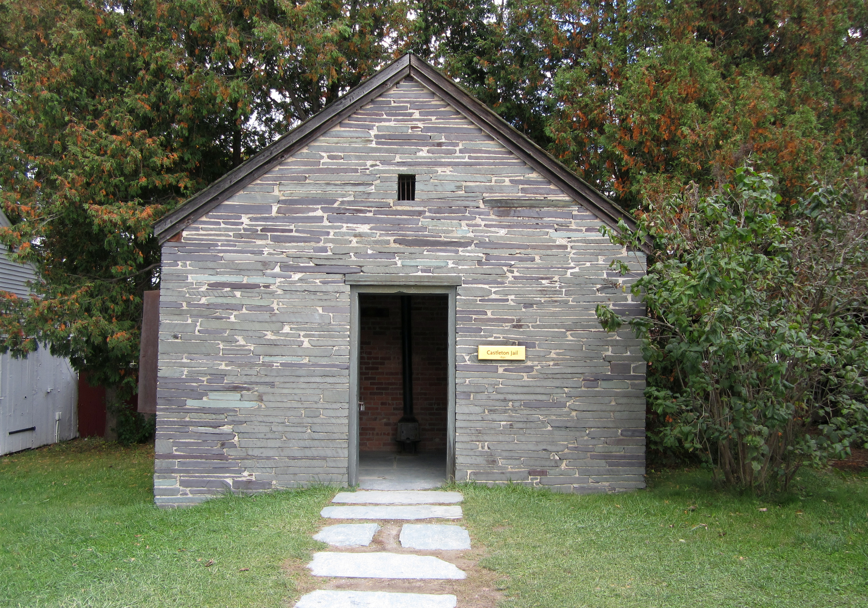 Exterior of the stone Castleton Jail, now an exhibit building located at the Shelburne Museum, in Shelburne, Vermont.